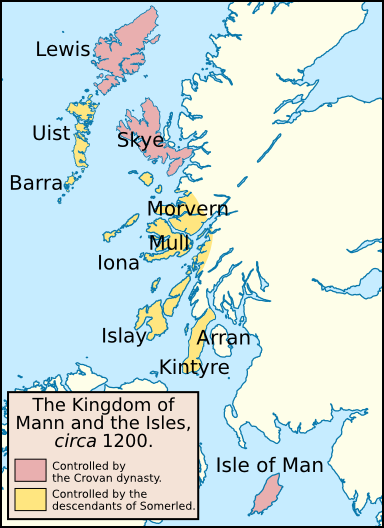 Map of the Kingdom of the Isles, circa 1200. I created this map using Inkscape. I used the following image to create this map: File:United_Kingdom_location_map.svg. I based this map off one published in: McDonald, R.A. (2007). Manx Kingship in its Irish sea Setting, 1187–1229: King Rǫgnvaldr and the Crovan dynasty. Four Courts Press. 978-1-84682-047-2.